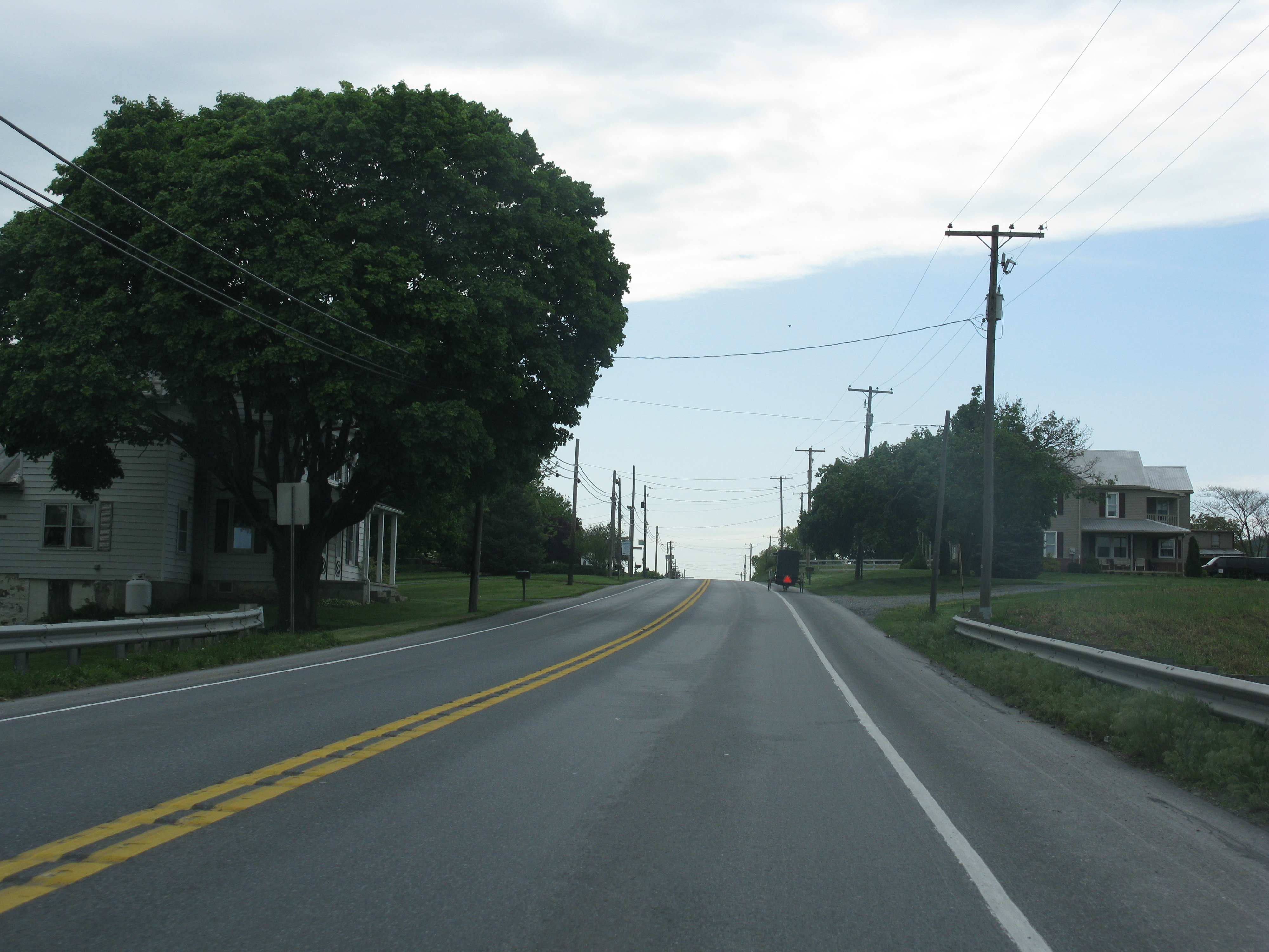 A view from US 322 near Hickory Lane, Hinkletown, Pennsylvania